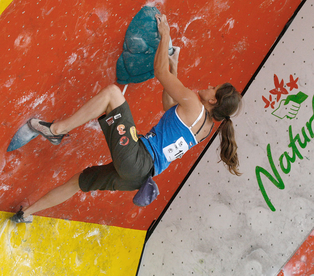 Anna Stöhr during the semi-finals at the IFSC Boulder Worldcup Vienna 2010.